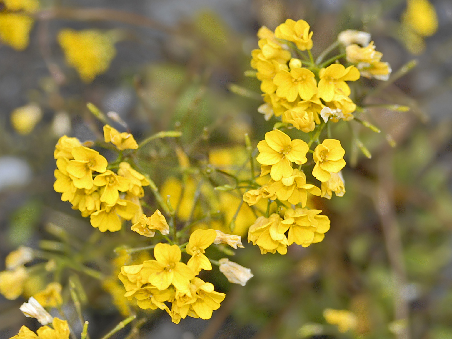 Flowers of Draba hispida at the Giardino Botanico Alpino Chanousia